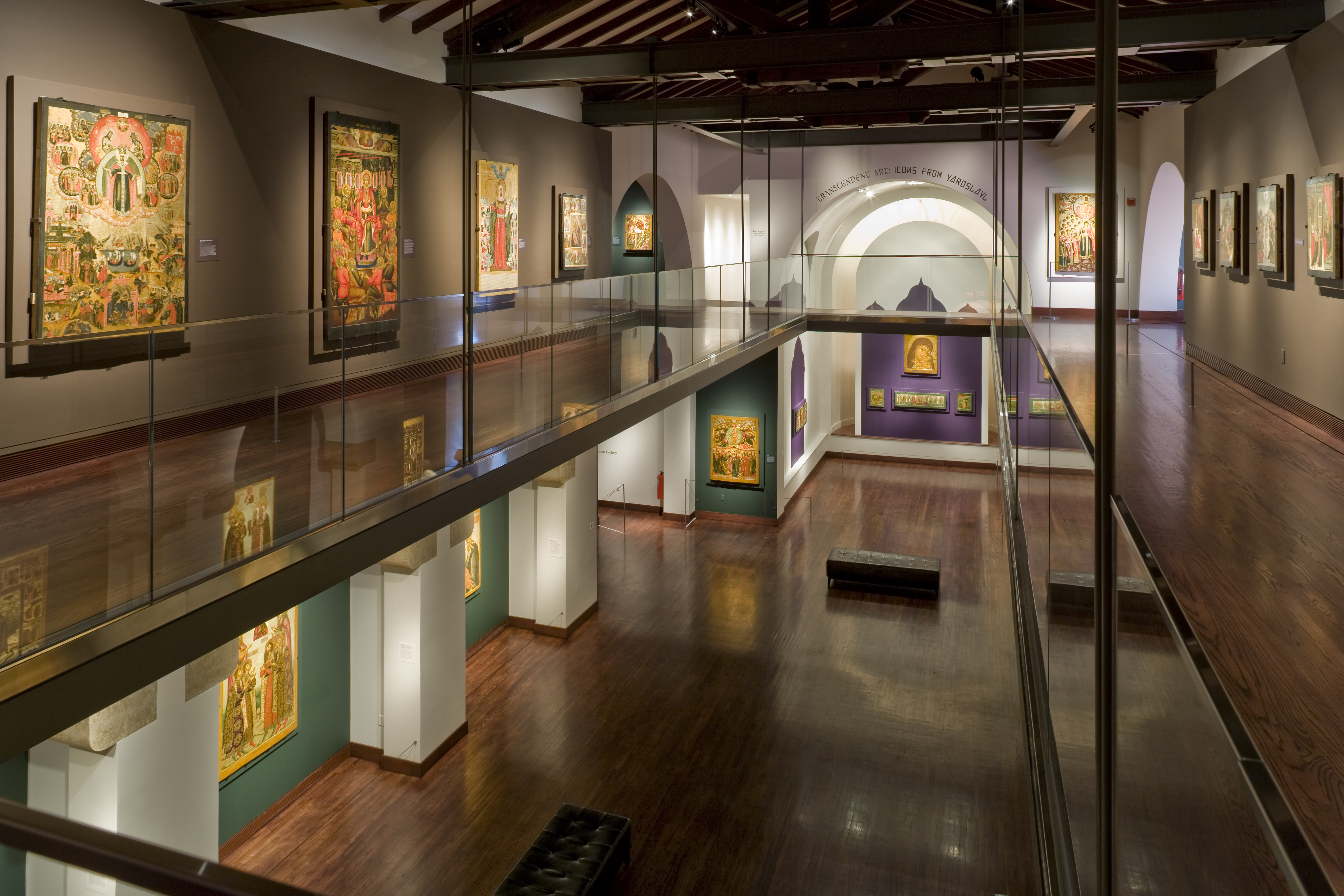 This photo is taken from the Mezzanine, overlooking both the Main and Mezzanine Galleries.